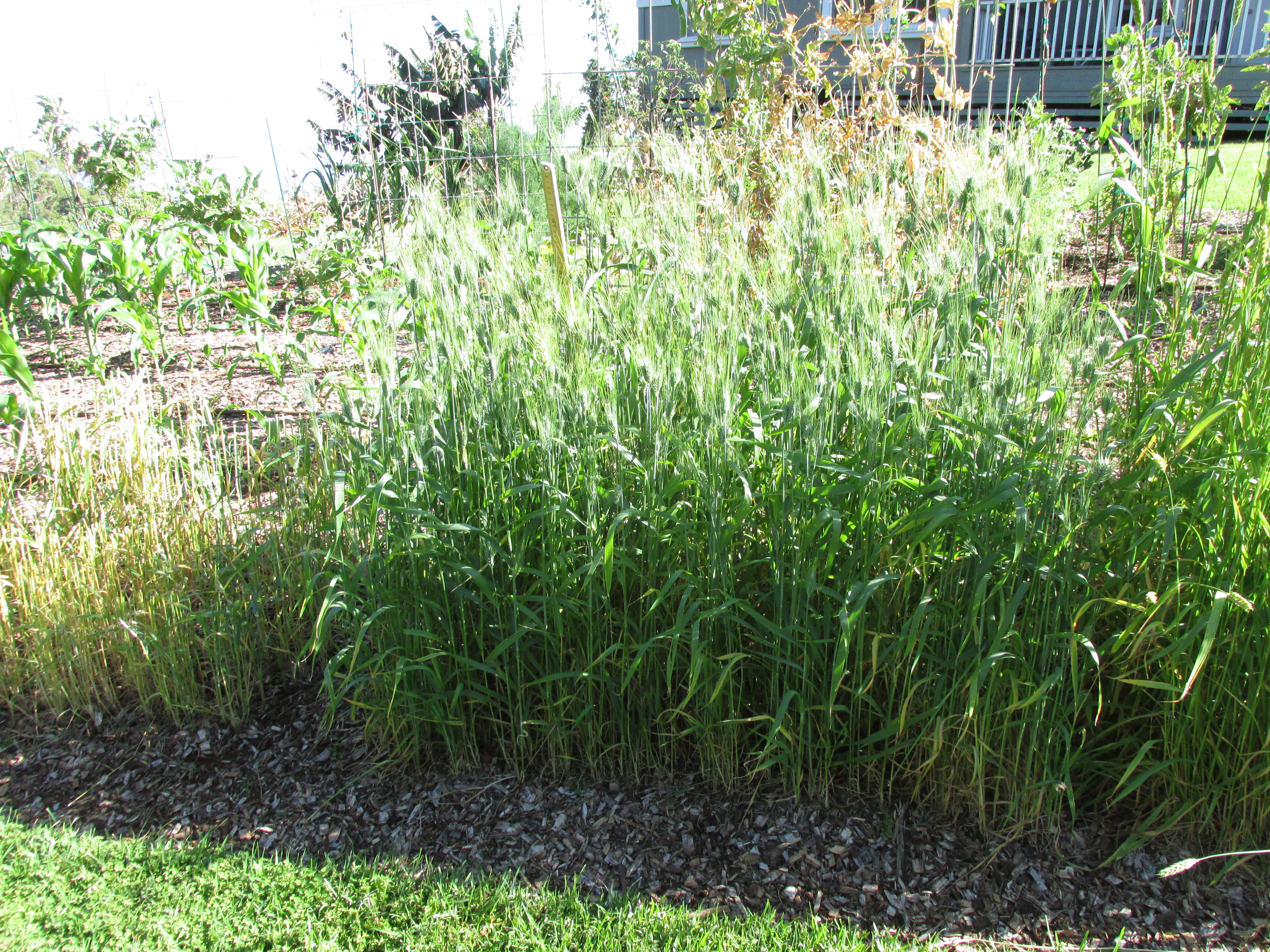 Triticum compactum (Club wheat) JD soft white spring club wheat variety at Hawea Pl Olinda, Maui, Hawaii. May 03, 2016 #160503-4508 Image Use Policy